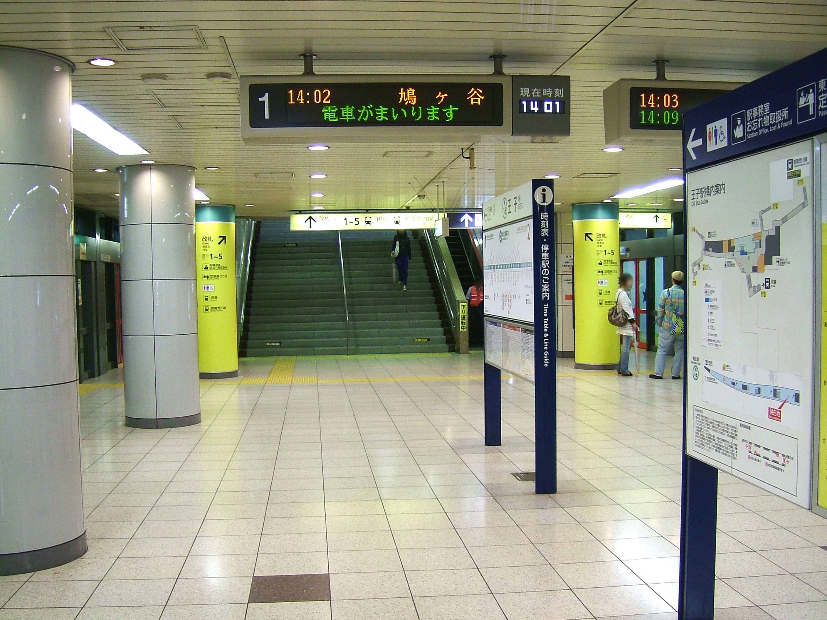 The platform at Ōji Station on the Tokyo Metro Namboku Line in Kita city, Tokyo, Japan